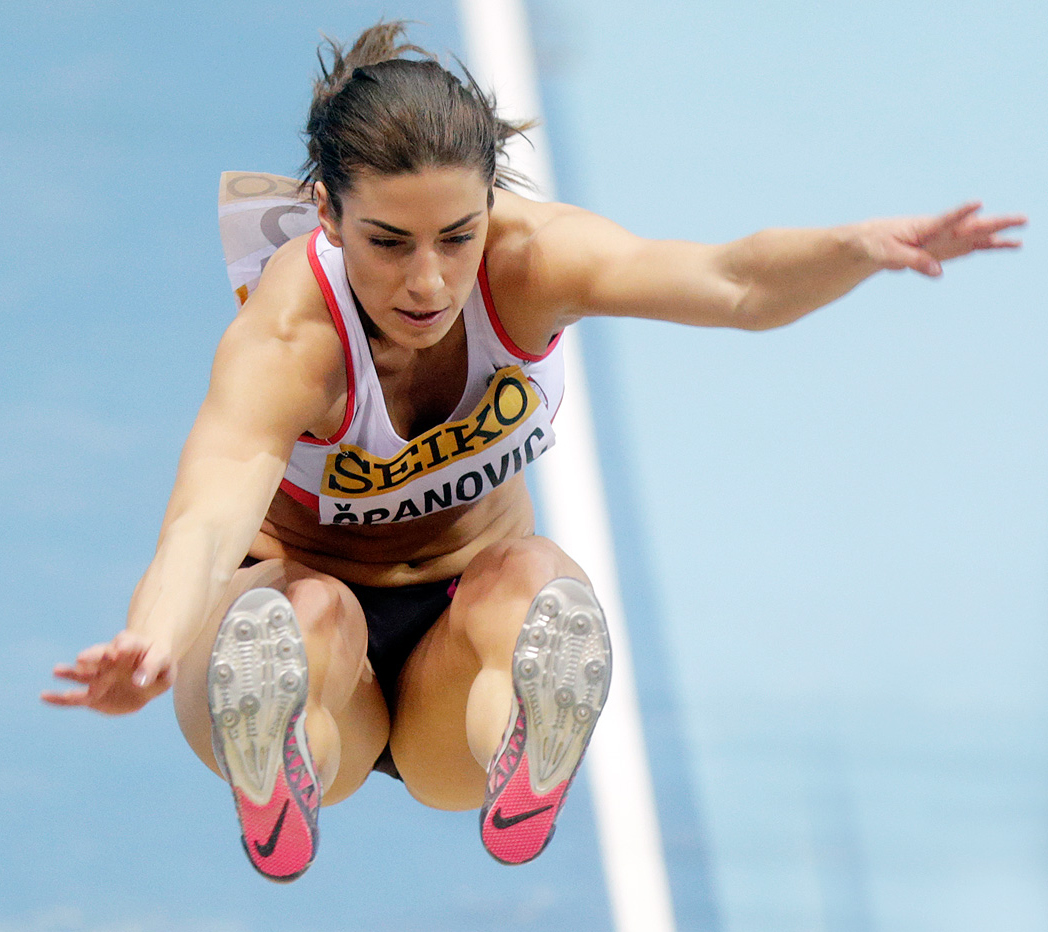 Ivana Spanovic in 2014 IAAF World Indoor Championships